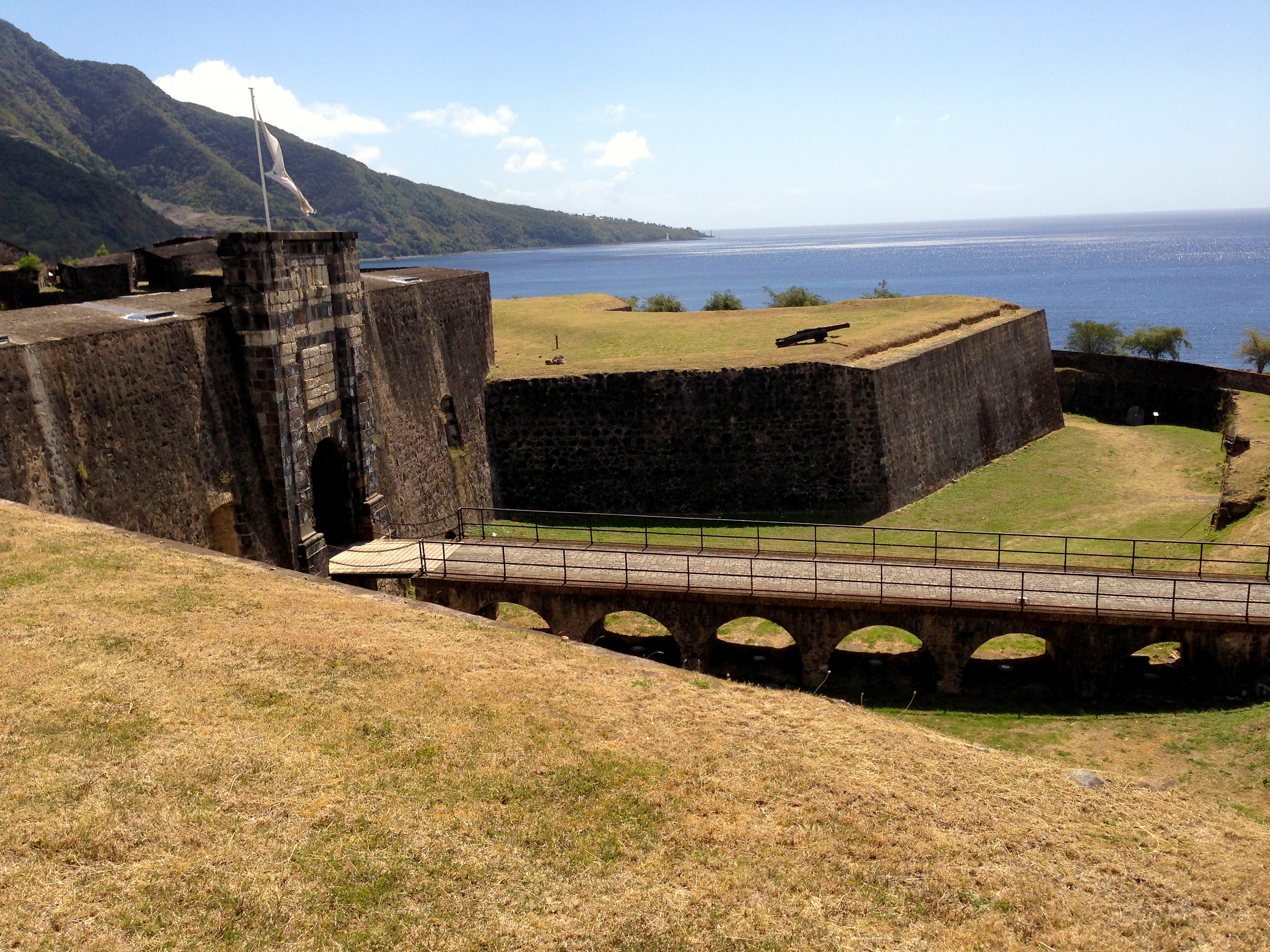 Fort Delgrès main entrance (sight from the un-named bulwark), Basse-Terre, Guadeloupe.